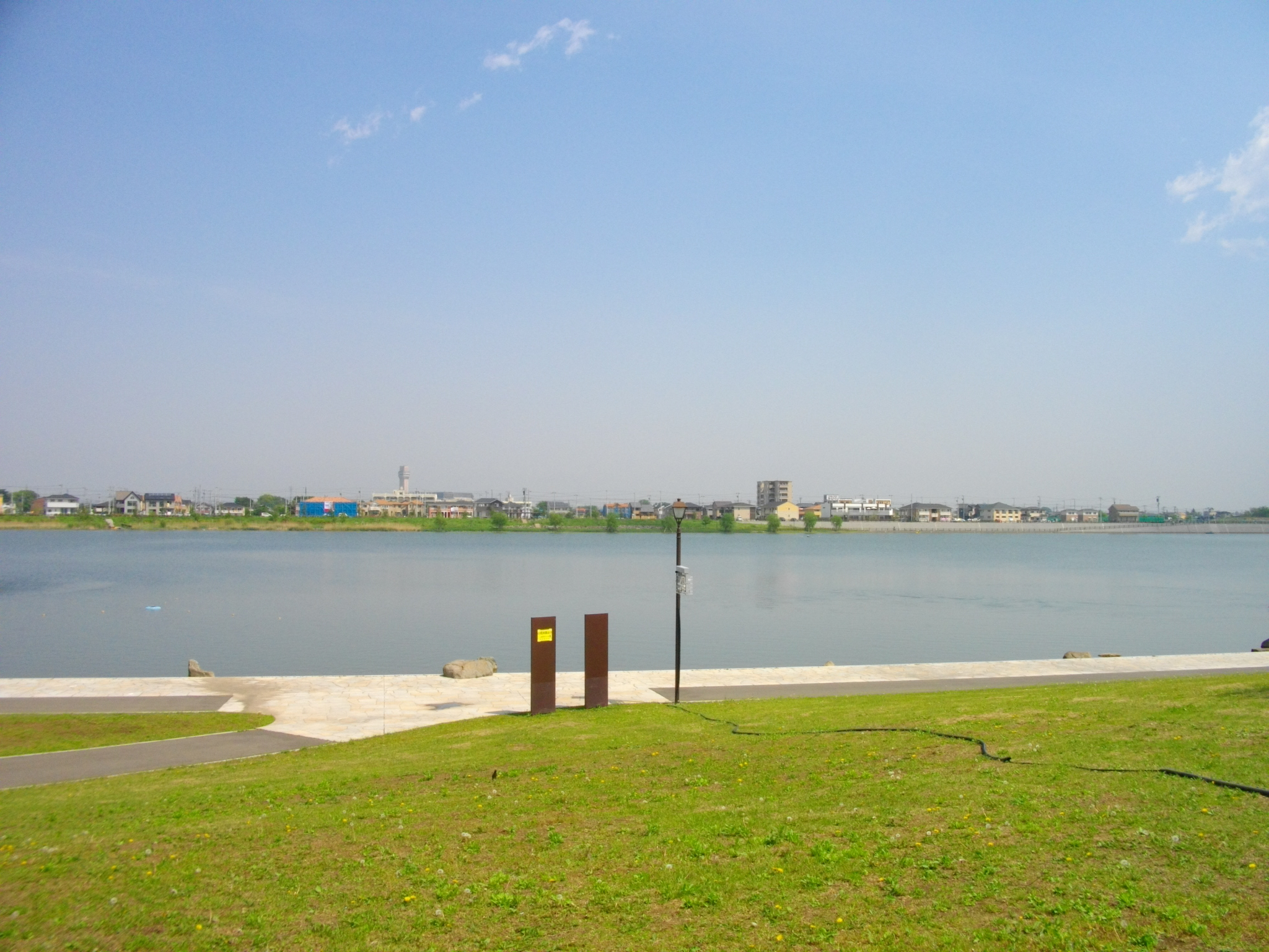 Osagami Reservoir